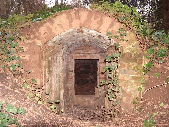 For use by anyone